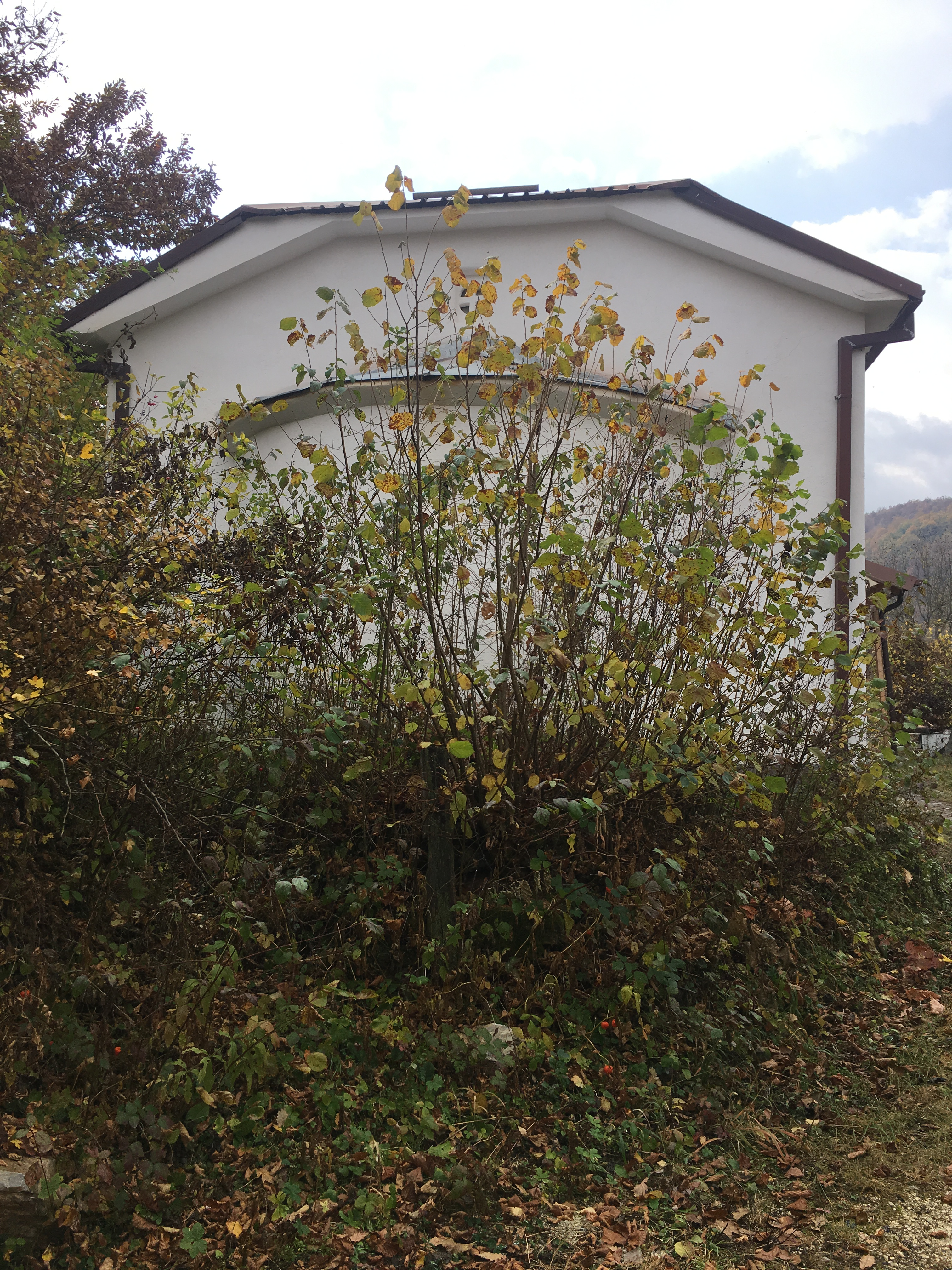 Wikiexpedition to Kopačka